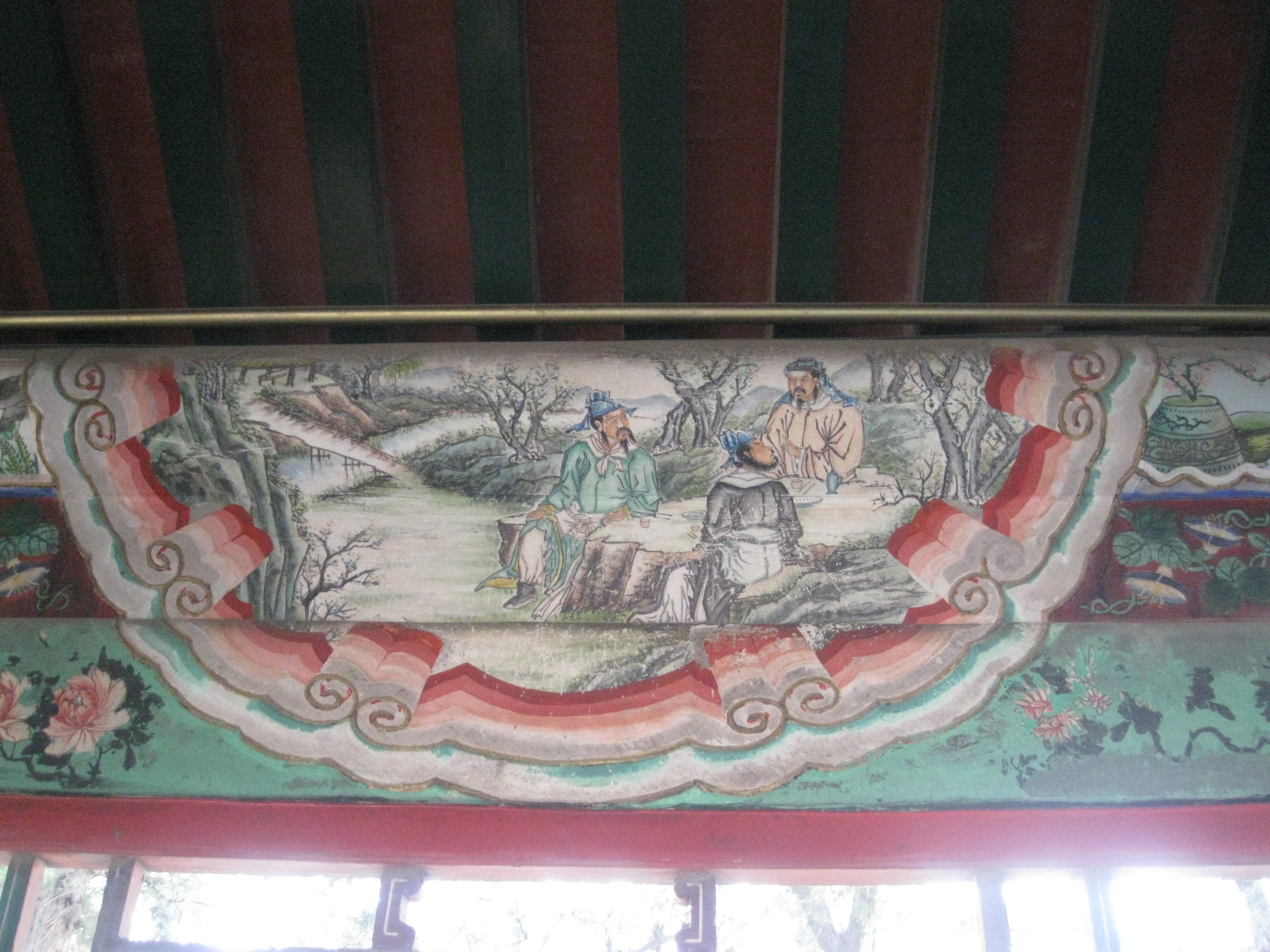 Summer Palace at Beijing - Long Corridor - arcade-pergola at the Summer Palace, Beijing.